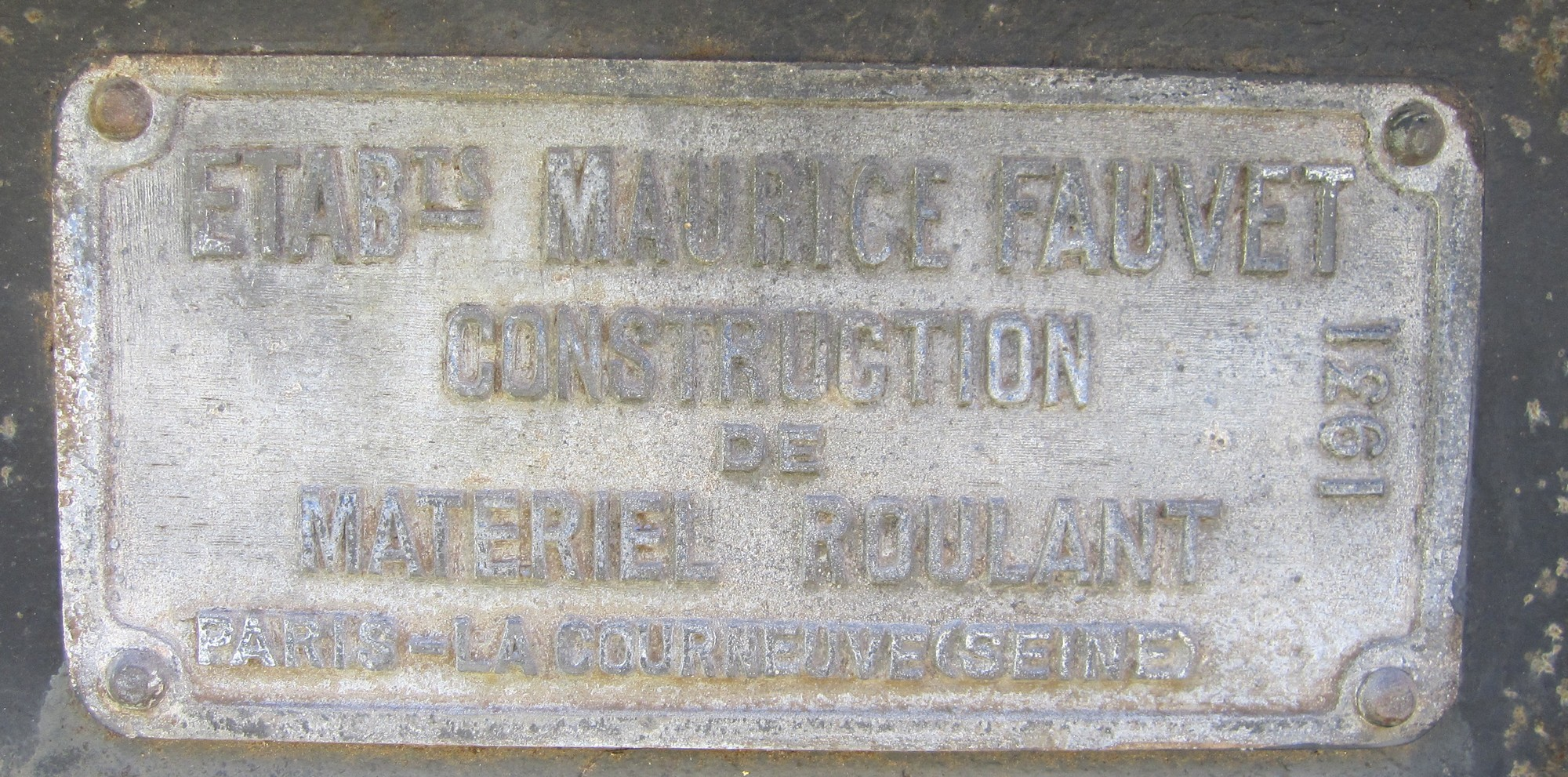 plate of a bogie tank wagon from 1931 of Ets Maurice Fauvet, Paris - Lacourneuve for the Réunion railroad.